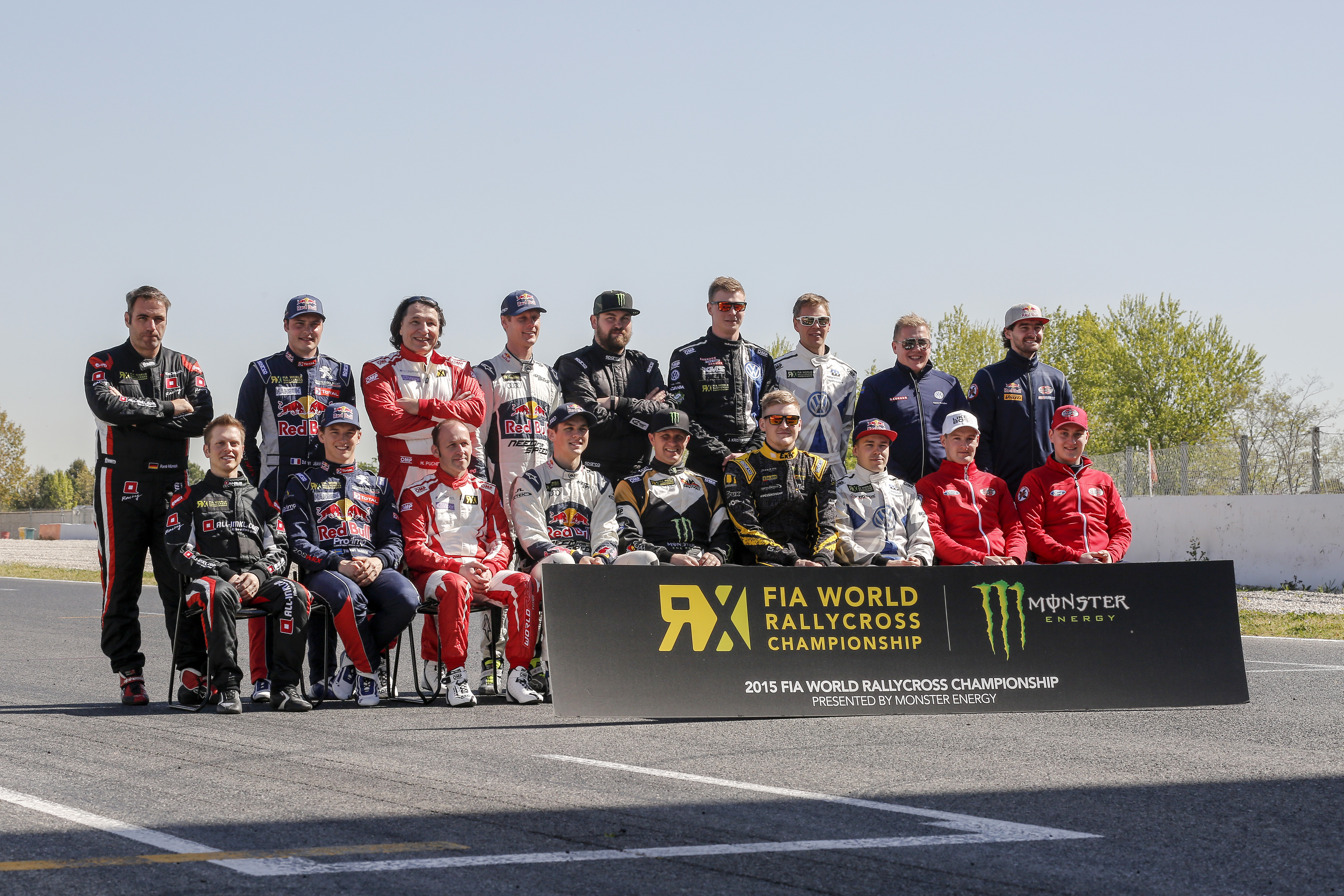 2015 FIA World Rallycross Championship Media day, Barcelona 2015 driver line-up. Back row (left to right): René Münnich, Davy Jeanney, Max Pucher, Edward Sandström, Liam Doran, Johan Kristoffersson, P-G Andersson, Tord Linnerud and Timur Timerzyanov. Front row (left to right): Alx Danielsson, Timmy Hansen, Manfred Stohl, Anton Marklund, Petter Solberg, Robin Larsson, Toomas Heikkinen, Andreas Bakkerud and Reinis Nitišs.